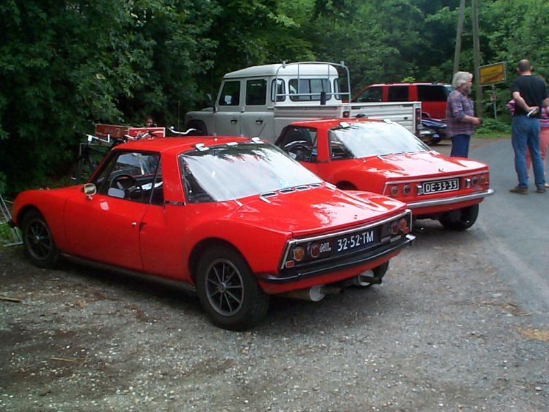 "Picture of 2 Matra M530's, taken by me in Grafwegen, Germany during a break in the Simca en Matra Sports Club Voorjaarsrit 2003."